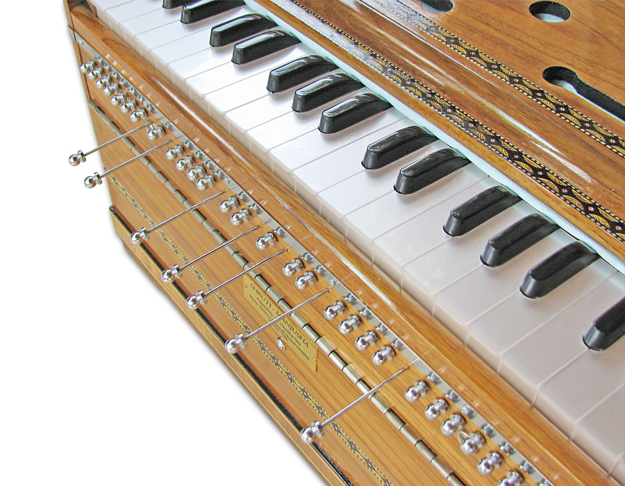 22 shruti harmonium created by Dr. Vidyadhar Oke